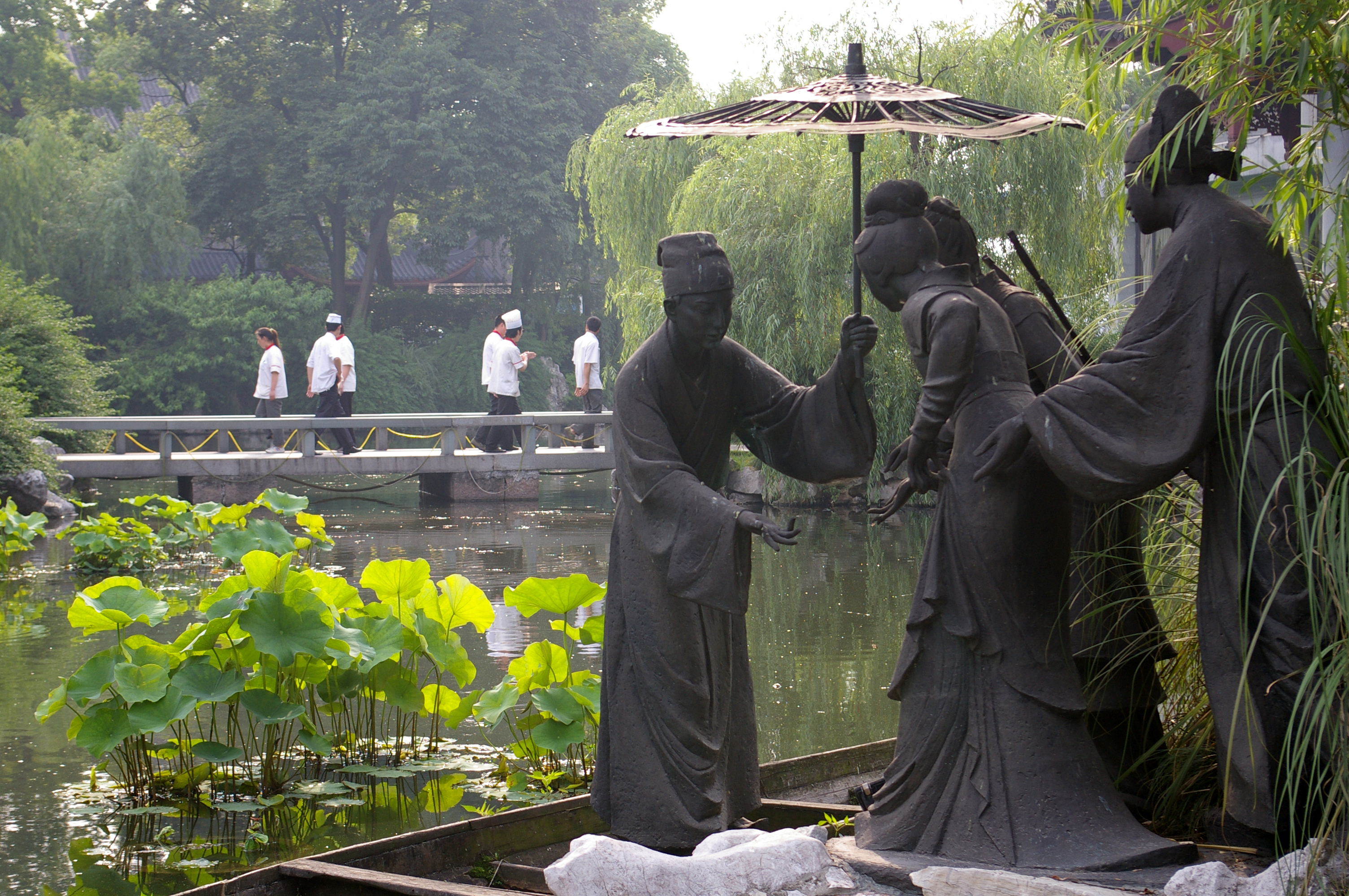 A park close to West Lake in Hangzhou